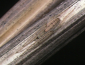 female Larinia onoi from Okinawa.